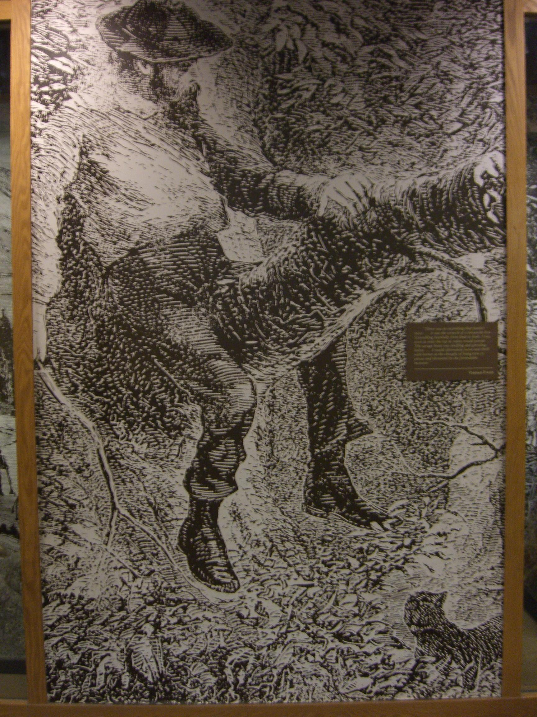 Image of Truman Everts at the wall in the Museum of Mammoth Hot Springs, Yellowstone National Park